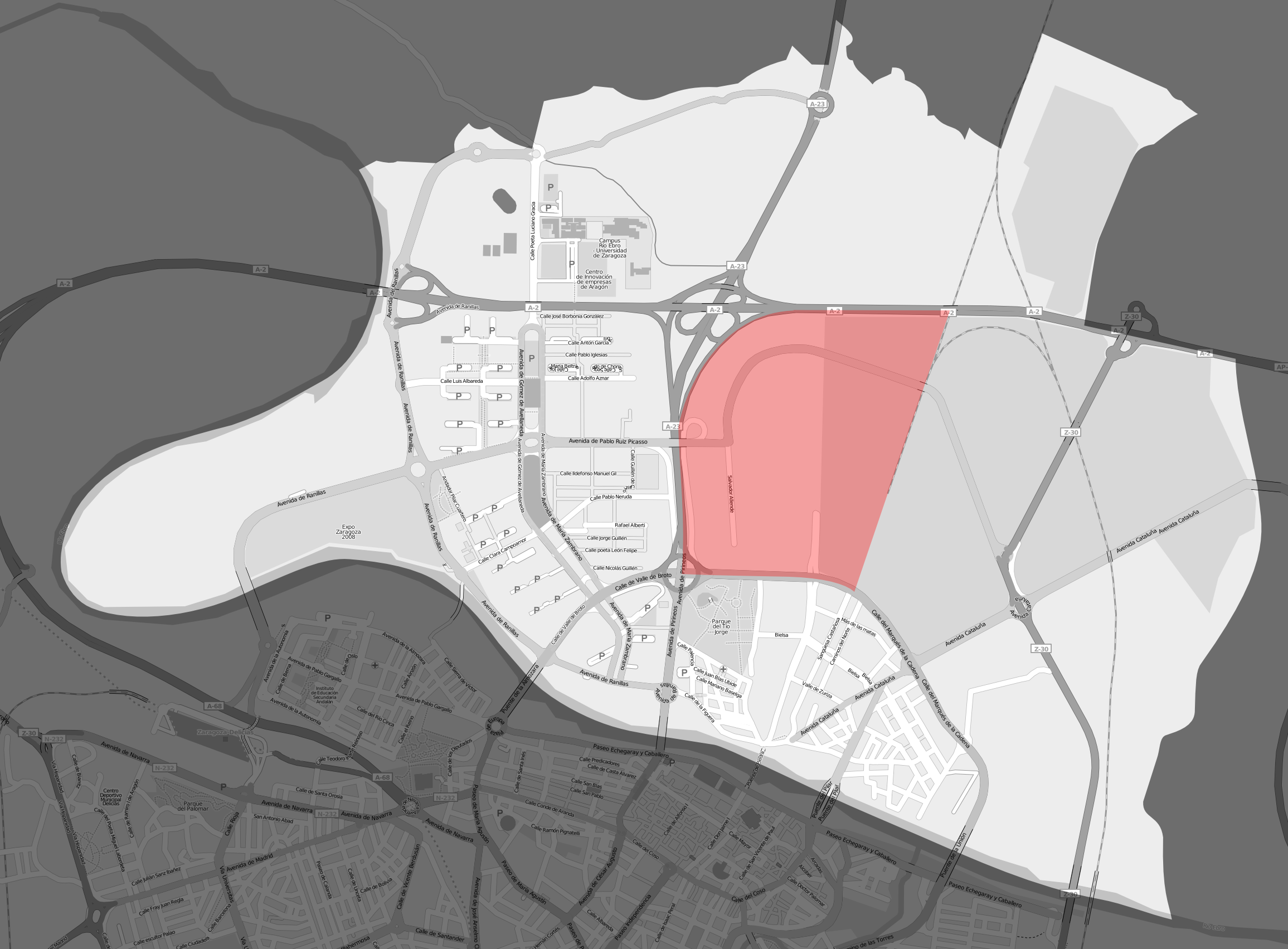 This map may be incomplete, and may contain errors. Don't rely solely on it for navigation.